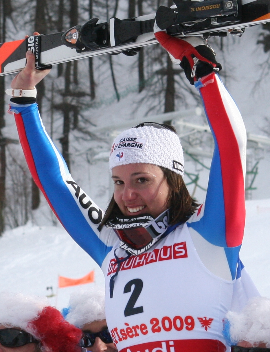 French skier Marie Marchand-Arvier during the world championship in Val D'Isère, 2009